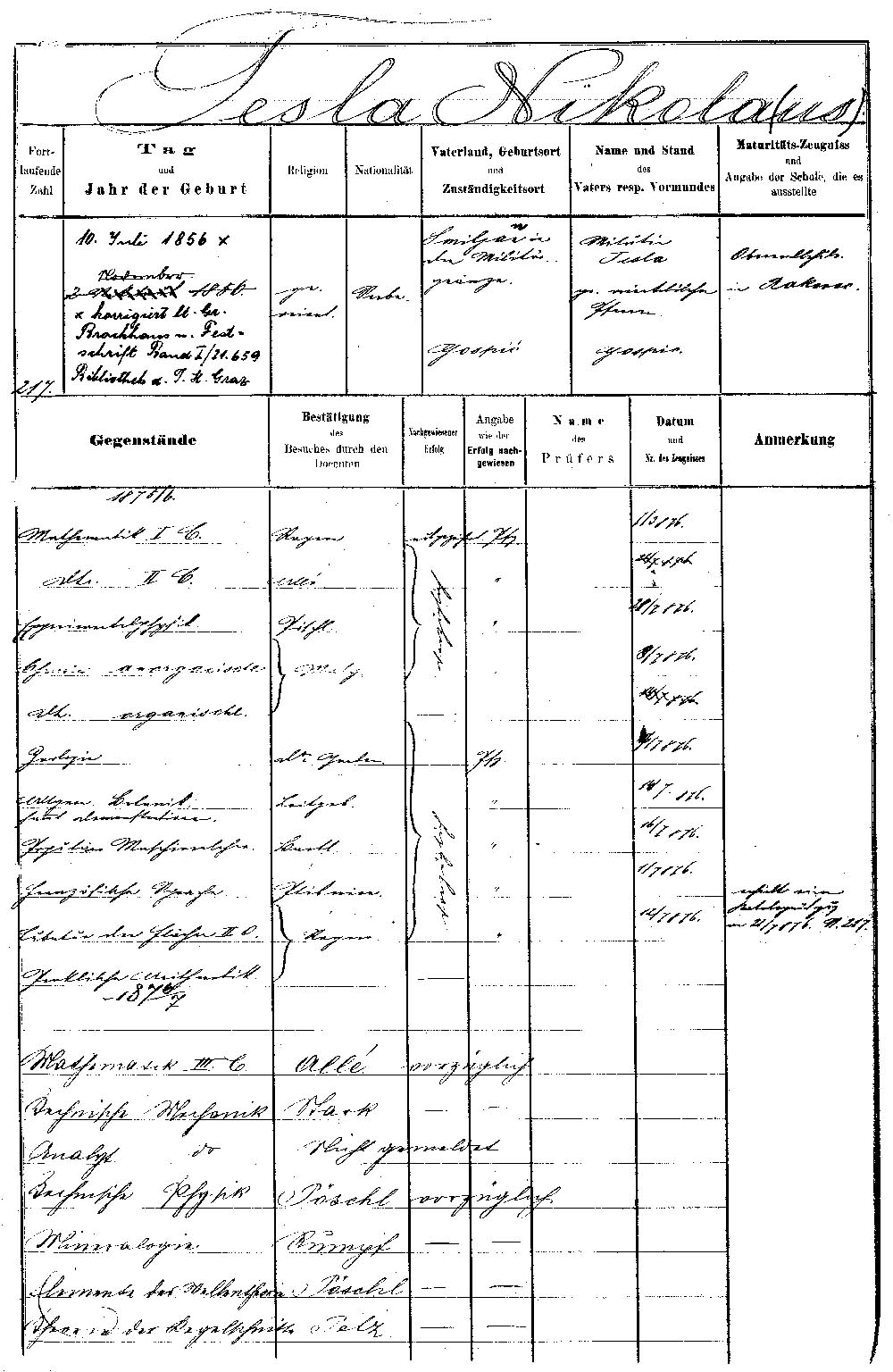 Study record of Nikola Tesla at the University of Graz